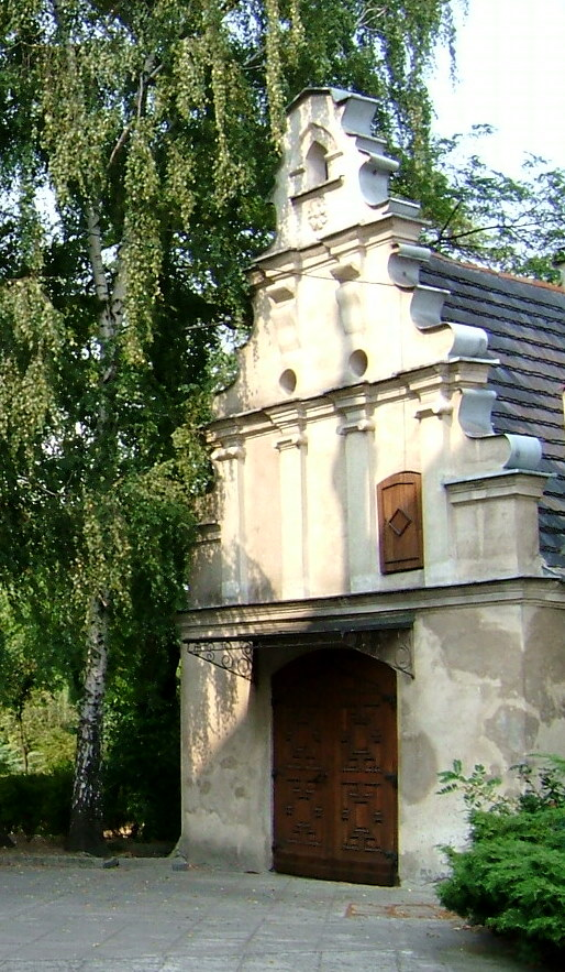 Opalenica, cemetery chapel/mortuary, manneristic, 1st half 17th cent.